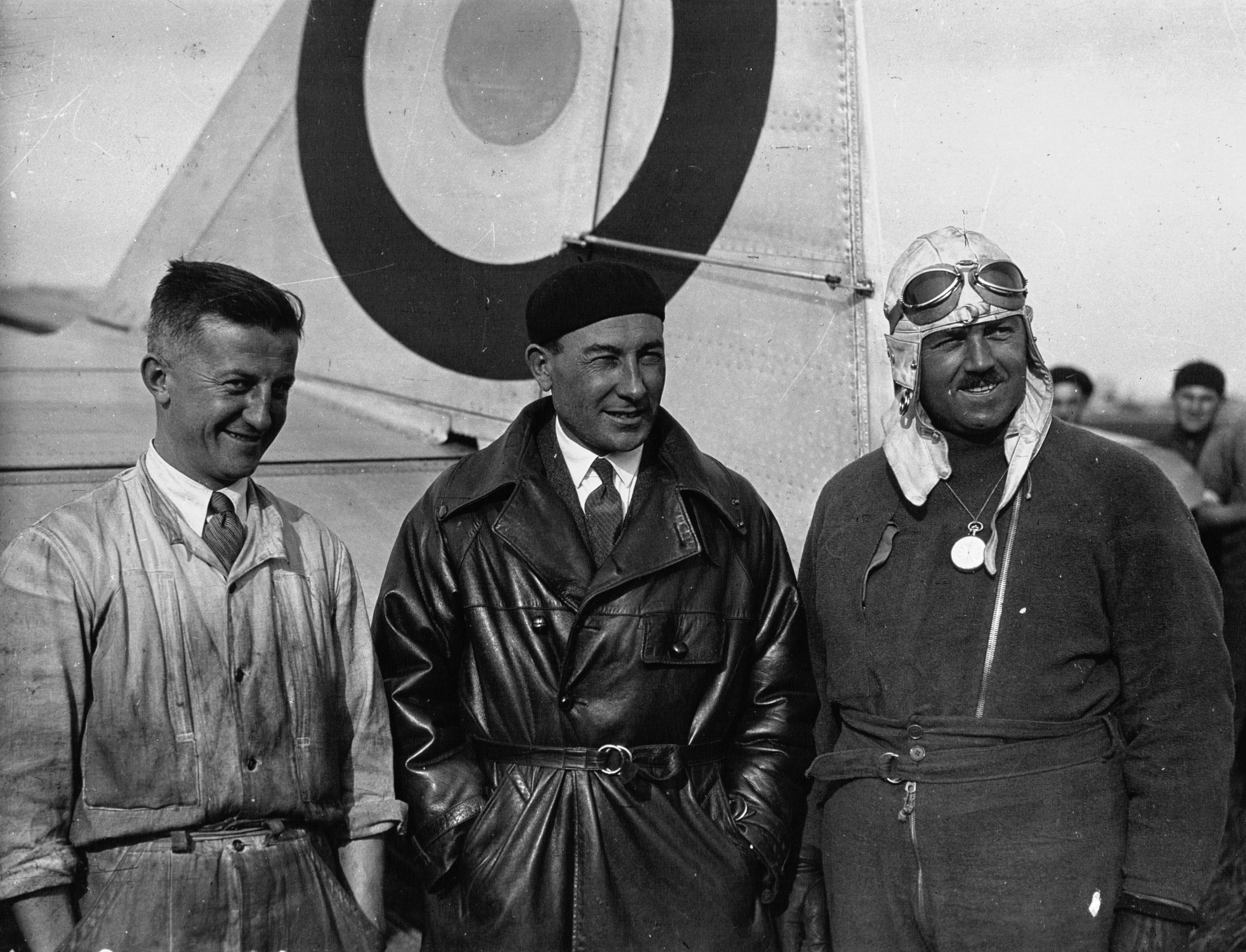 French aviators René Mesmin (1897-1931), Joseph Le Brix (1899-1931) and Marcel Doret (1896-1955) standing in front of their aircraft "Trait d'Union II" .